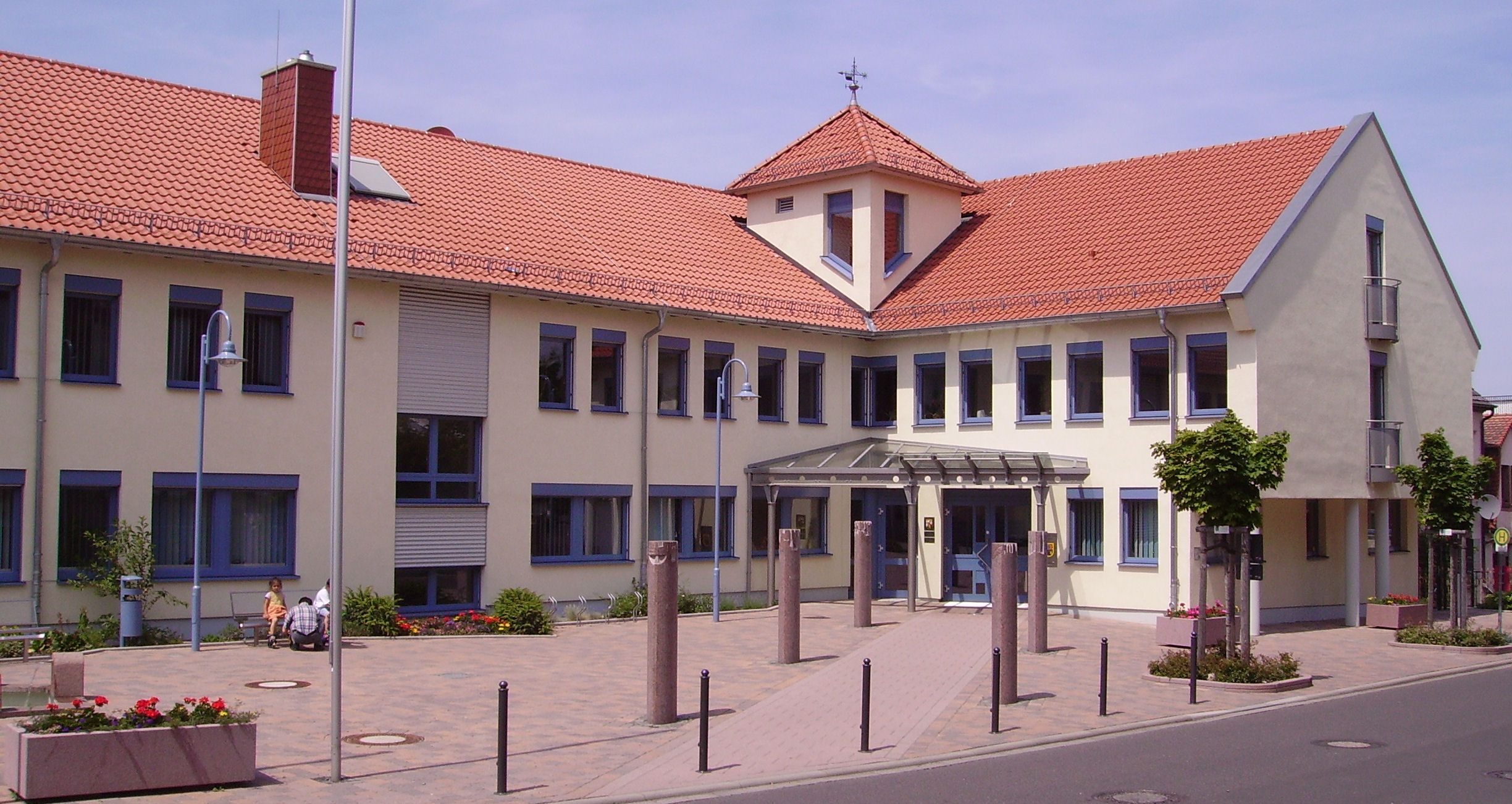 views of Hettenleidelheim in the Palatinate, Germany